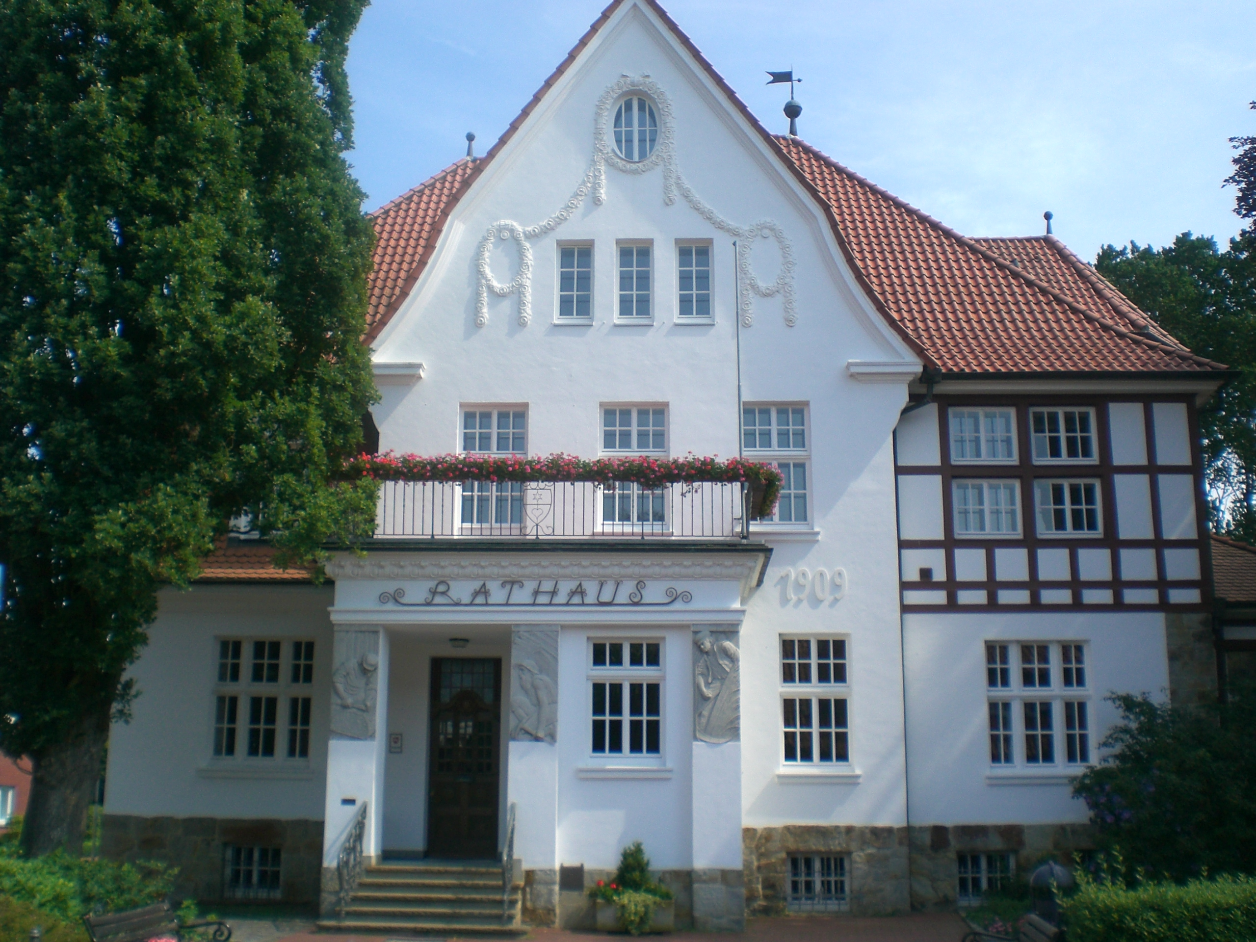 Town hall in Essen, Lower Saxony, Germany